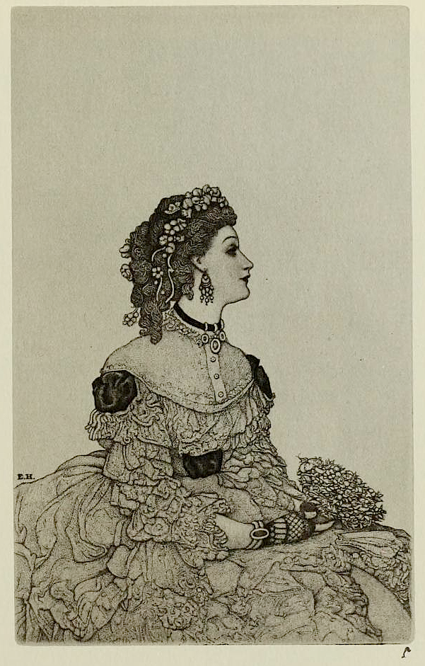 Amelia, flick etching [dotted print], executed between 1903 and 1906 [Bailly-Herzberg, 1985], printed in 1915 [Bawdoin College, 1976]. Dim. : 13,1 x 8,5 cm.